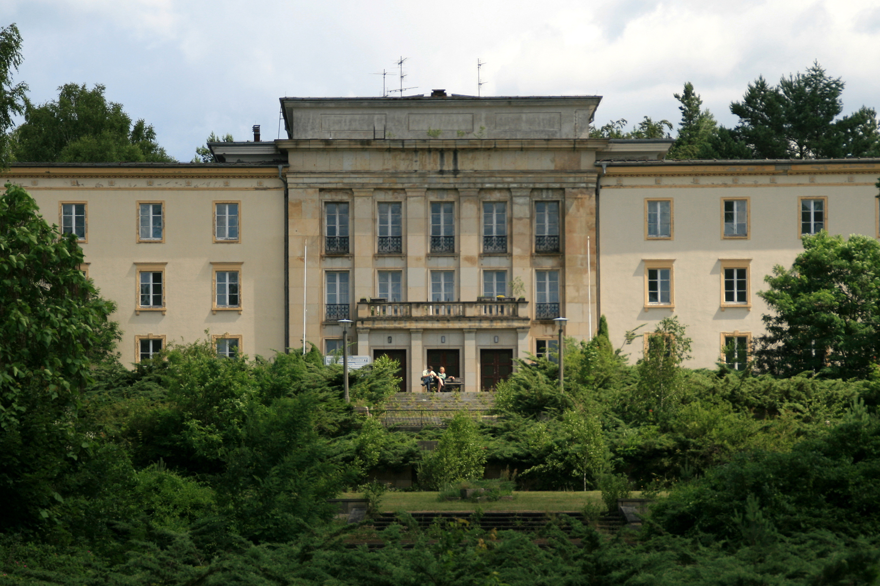 Lesson building of the youth university "Wilhelm Pieck", Bogensee